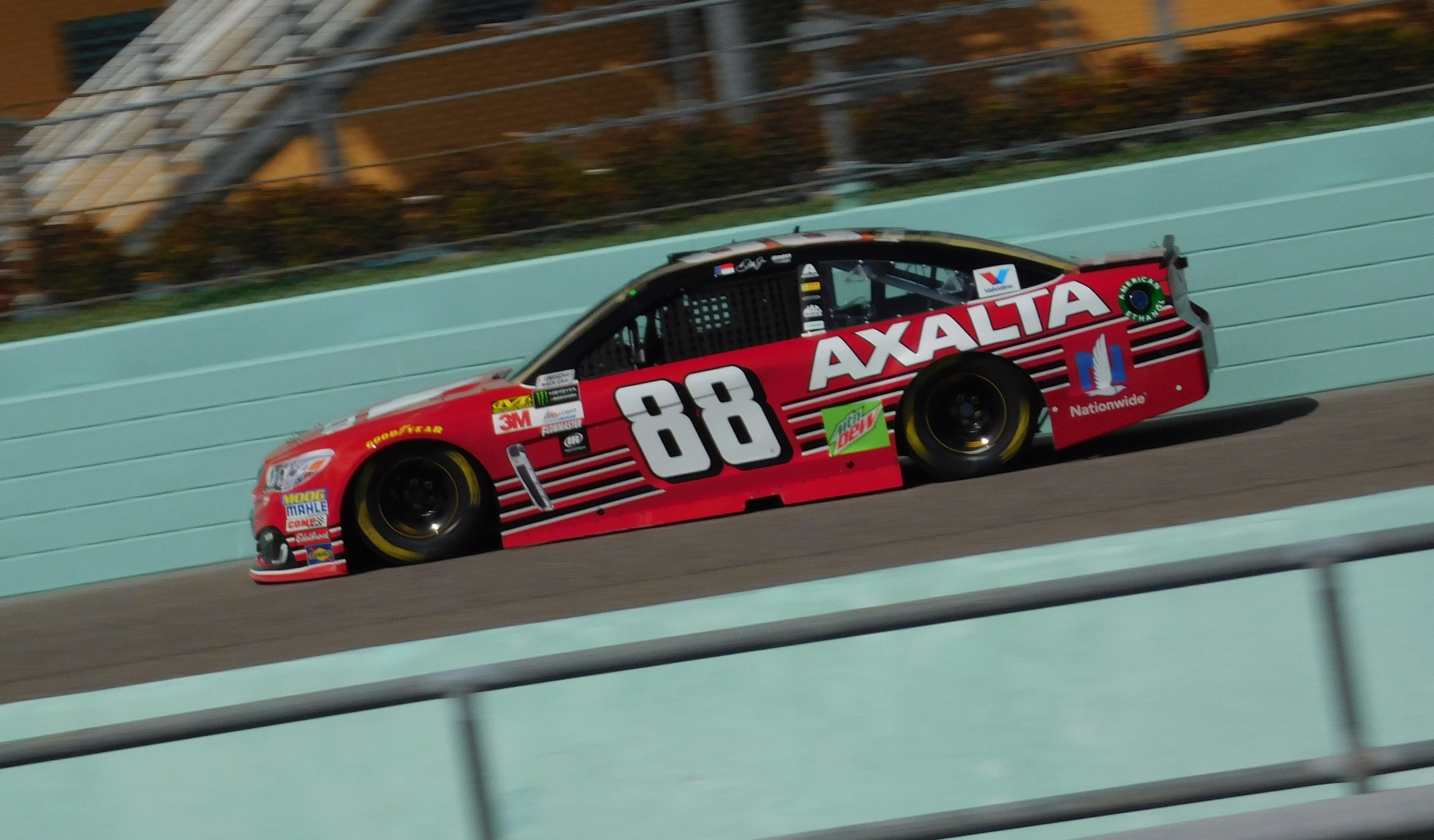 Dale Earnhardt Jr.'s No. 88 Axalta Chevrolet at Homestead–Miami Speedway in 2017. The Ford EcoBoost 400 was Earnhardt's final NASCAR Cup Series start.